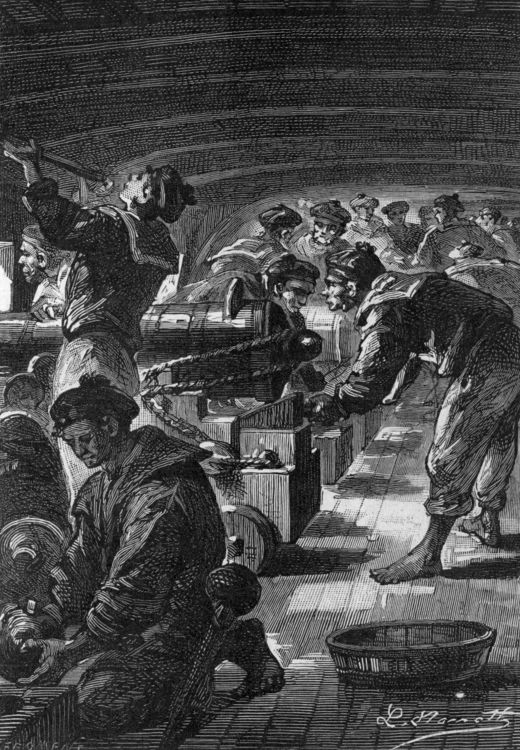 An illustration from Jules Verne's novel "The Archipelago on Fire" drawn by Léon Benett.